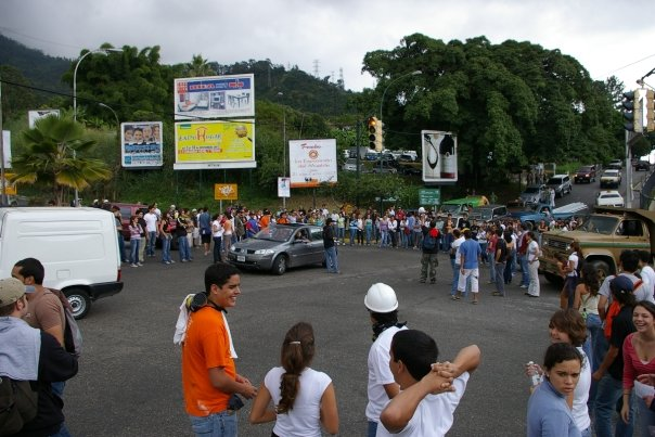 Student protests in Venezuela; university students, referendum 2007; constitutional reform: It was in November 2007, we were giving flyers to the people driving by, and the police wouldn't let us. =P (this image is part of a photo series for the subject)